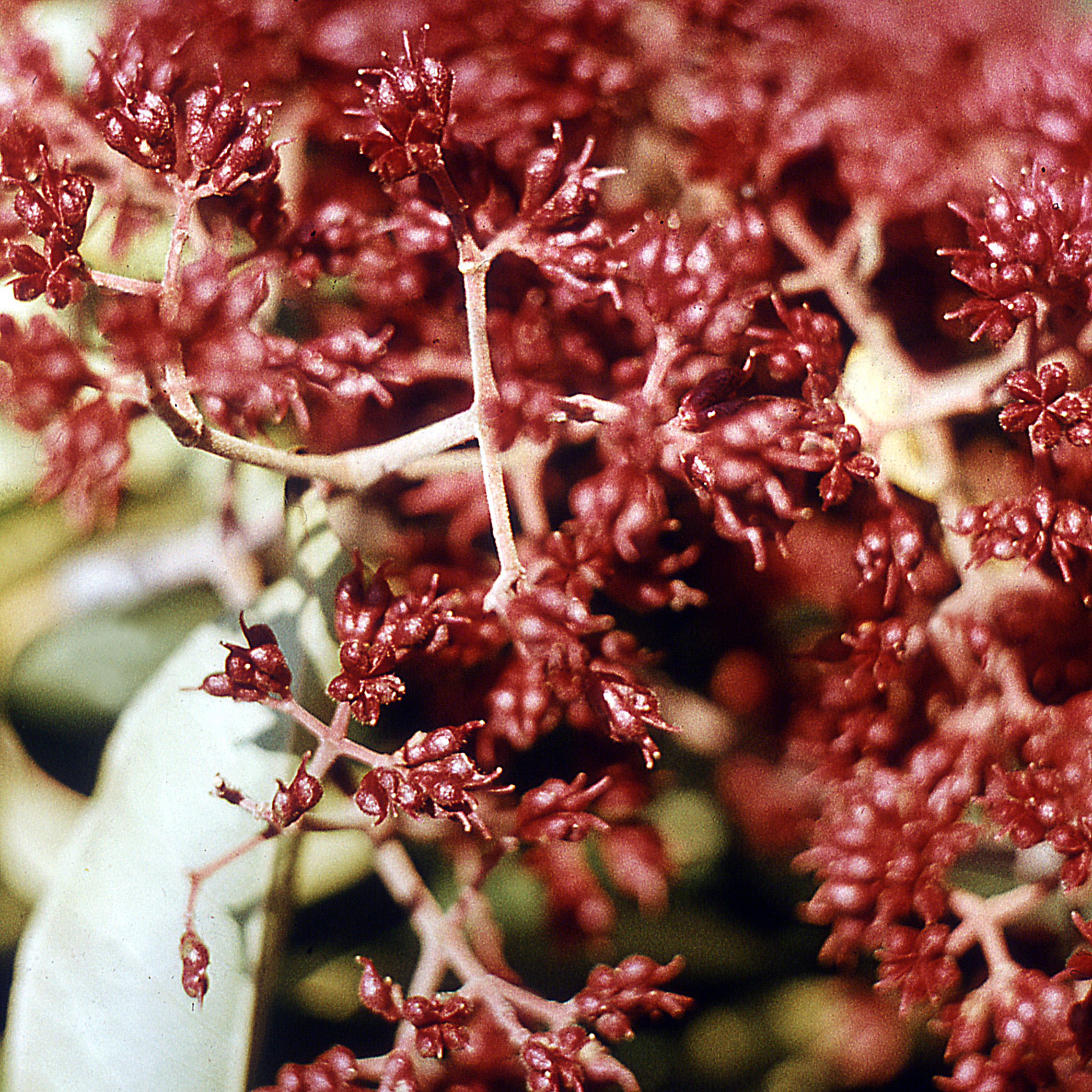 Tetradium daniellii fruits.